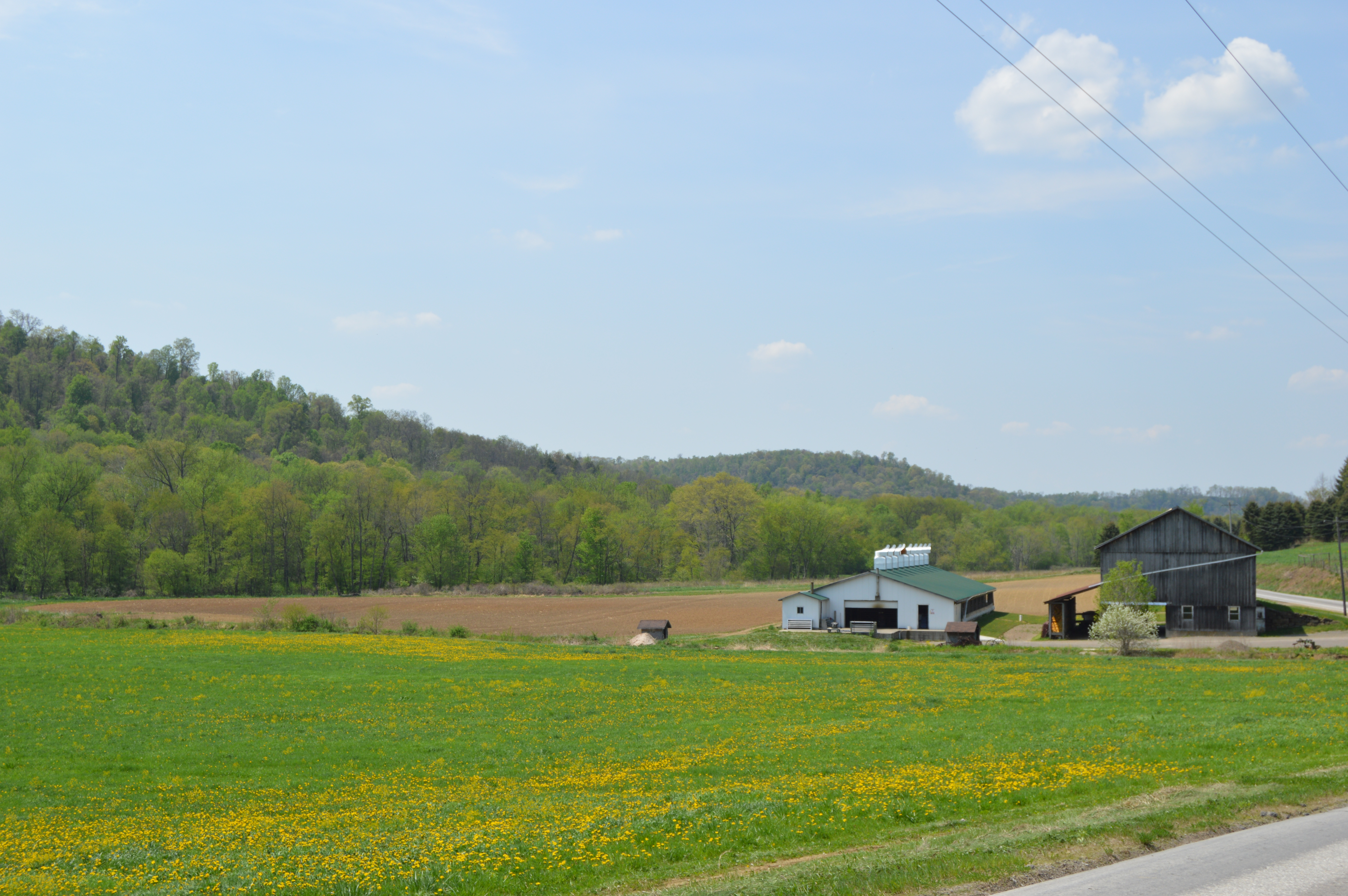 Looking west from McCormick Road west of Georgeville in southern West Mahoning Township, Indiana County, Pennsylvania, United States.